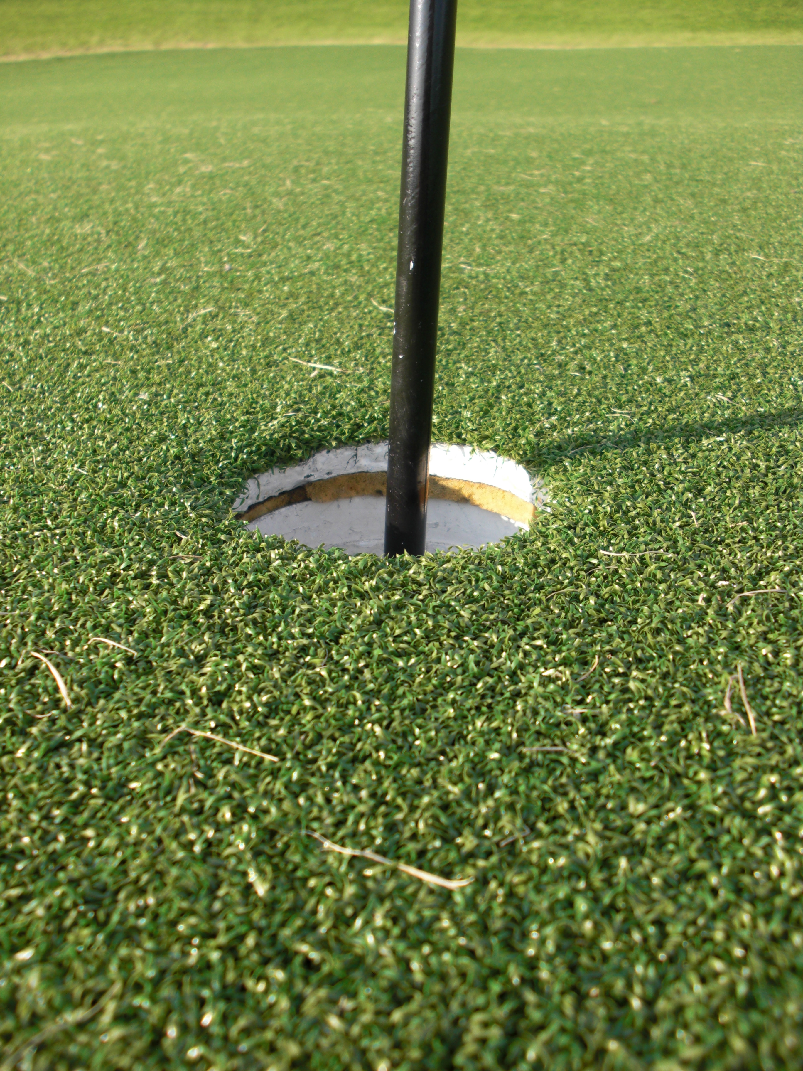 Close up on hole on golf green with artificial turf.